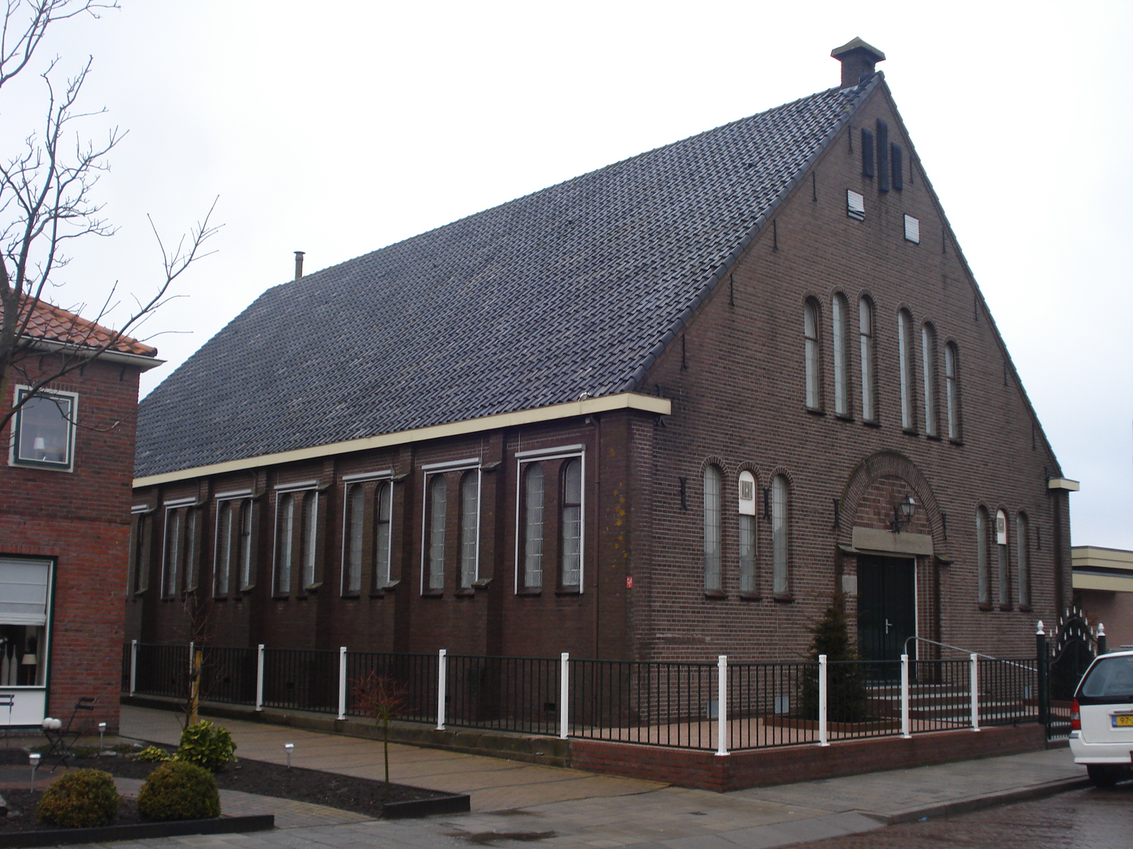 Oud Gereformeerde Gemeente te Stavenisse